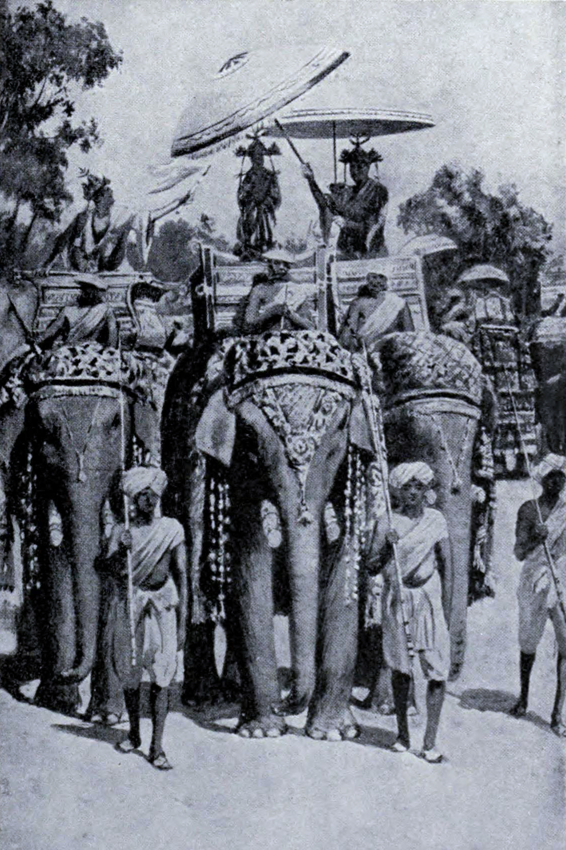 Hutchinson's story of the nations, containing the Egyptians, the Chinese, India, the Babylonian nation, the Hittites, the Assyrians, the Phoenicians and the Carthaginians, the Phrygians, the Lydians, and other nations of Asia Minor.